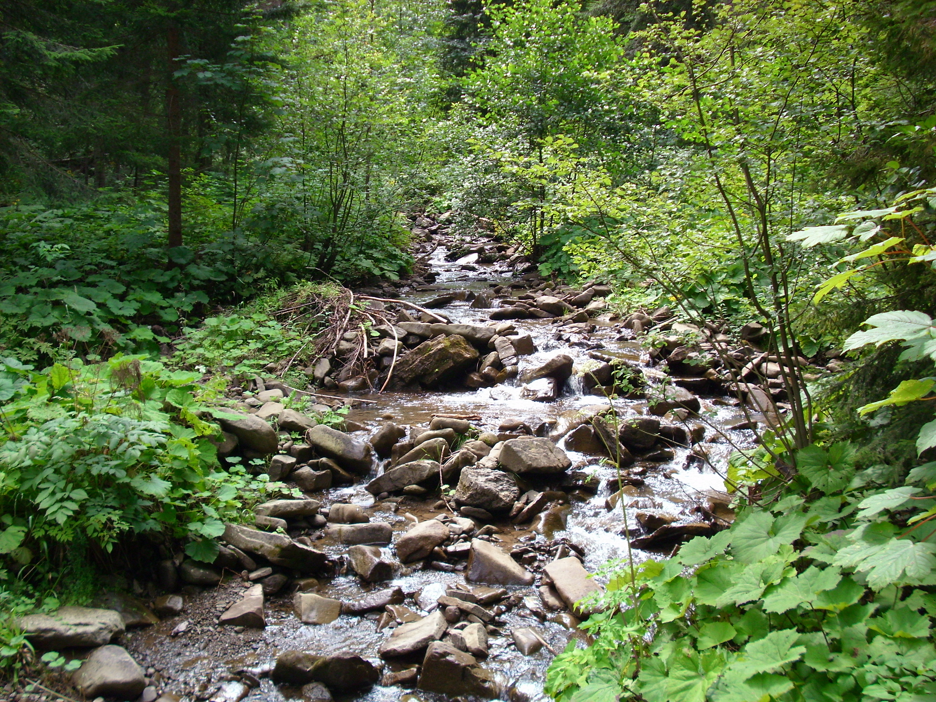 Stream Buczynka in Korbielów